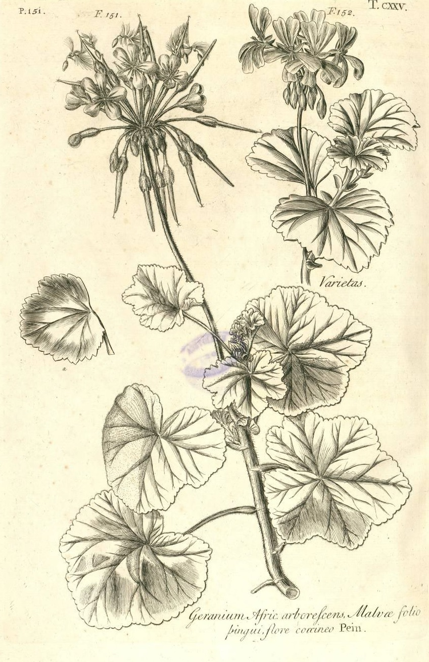 Pelargonium inquinans, from Johann Jacob Dillen Dillenius, Hortus Elthamensis 1732. I Tcxxv